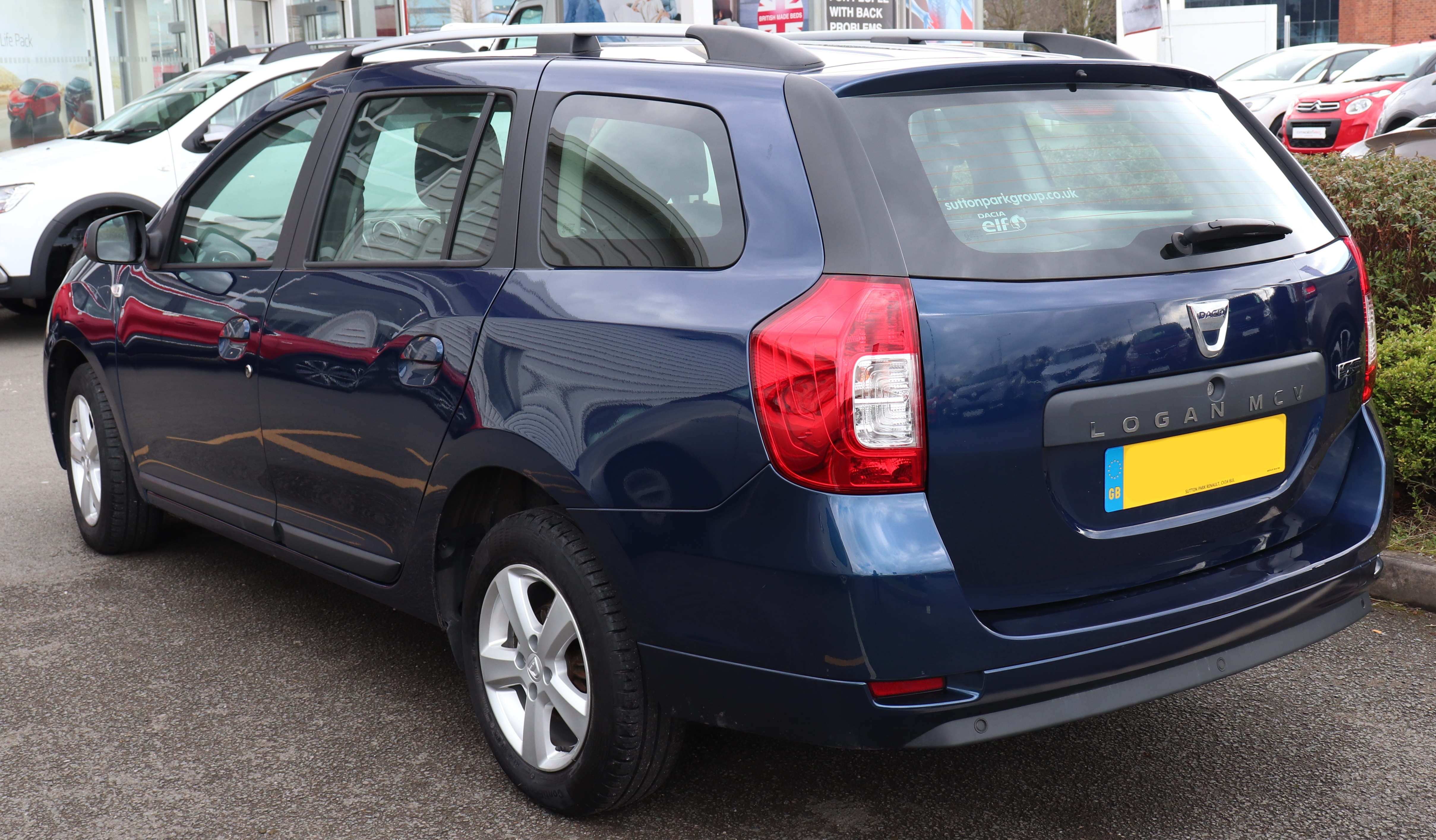 2017 Dacia Logan MCV Laureate DCi 1.5 Rear Taken in Leamington Spa